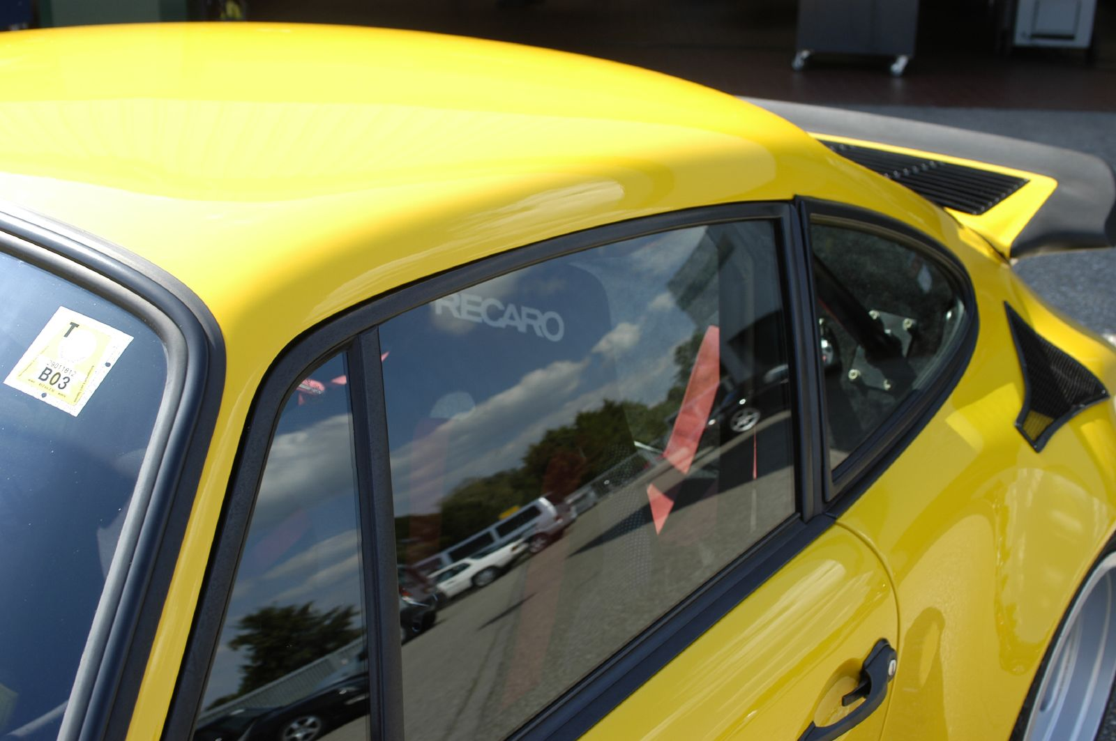 Ruf CTR Yellowbird 2